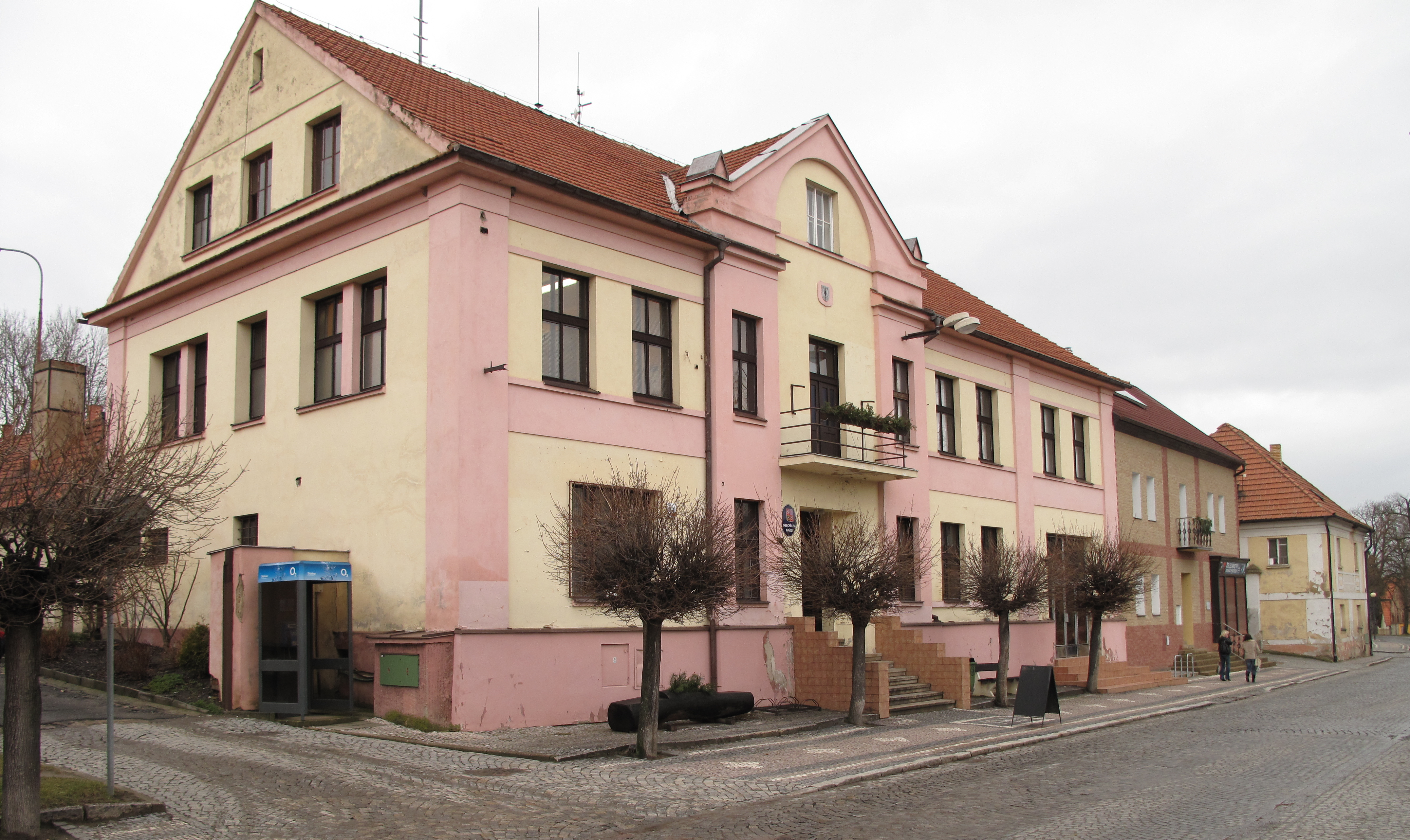 Municipal office in Byšice village, Mělník District, Czech Republic.